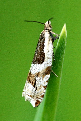 Picture taken in Commanster, Belgian High Ardennes . Species: Ancylis badiana